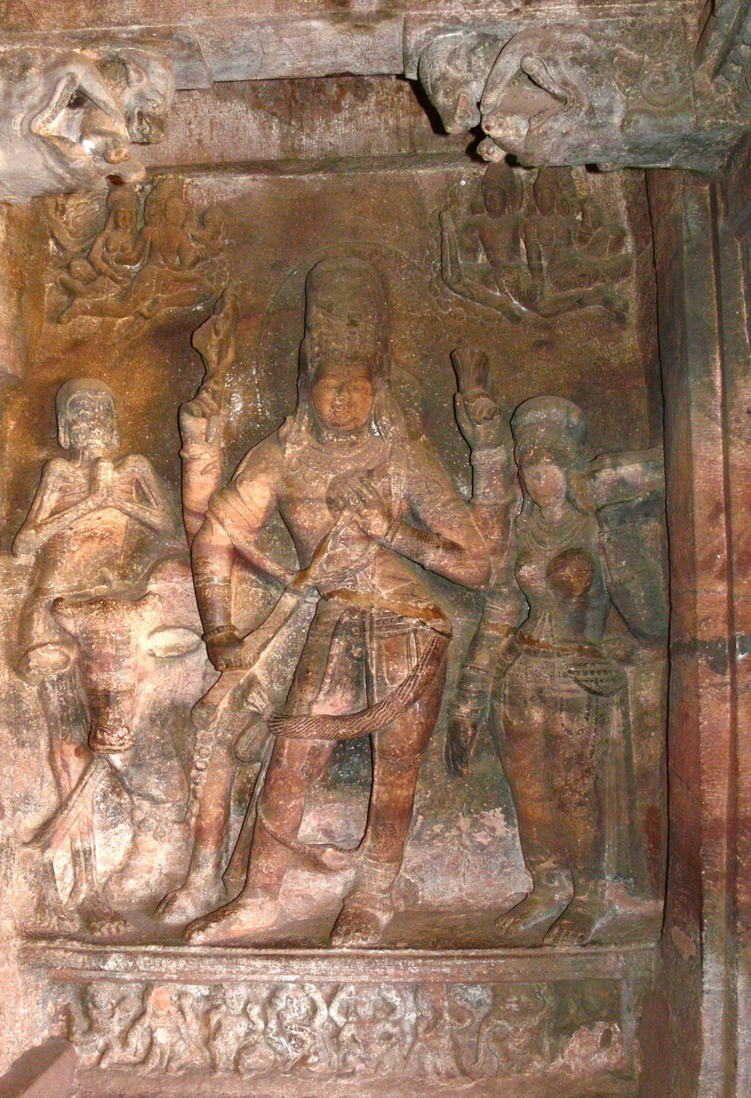 Ardhanari surrounded by Bhringi and a female attendant or Parvati BADAMI, Bagalkot Dt., KARN